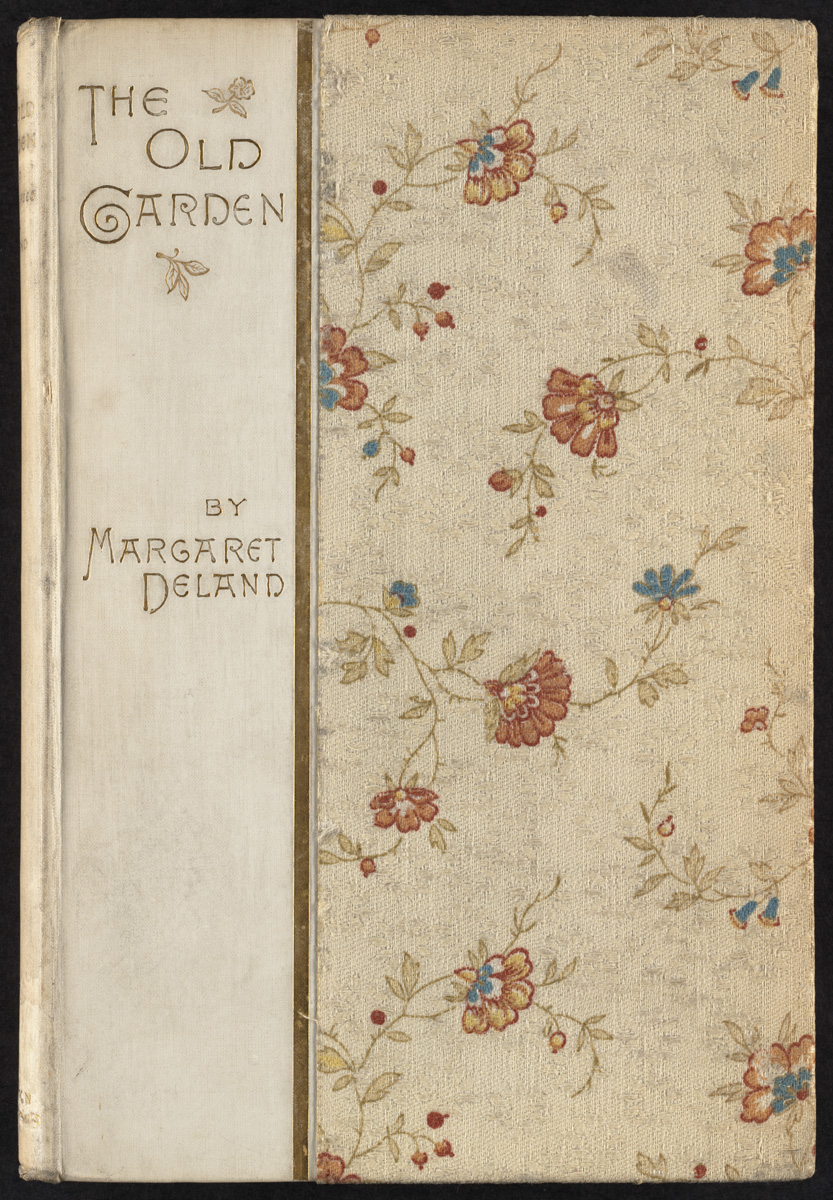 File name: 06_04_000095Title: The old garden and other versesDate issued: 1886Genre: Book coversNotes: Deland, Margaret, 1857-1945 (Author)Collection: Sarah Wyman Whitman BindingsLocation: Boston Public Library, Special CollectionsRights: No known copyright restrictions.